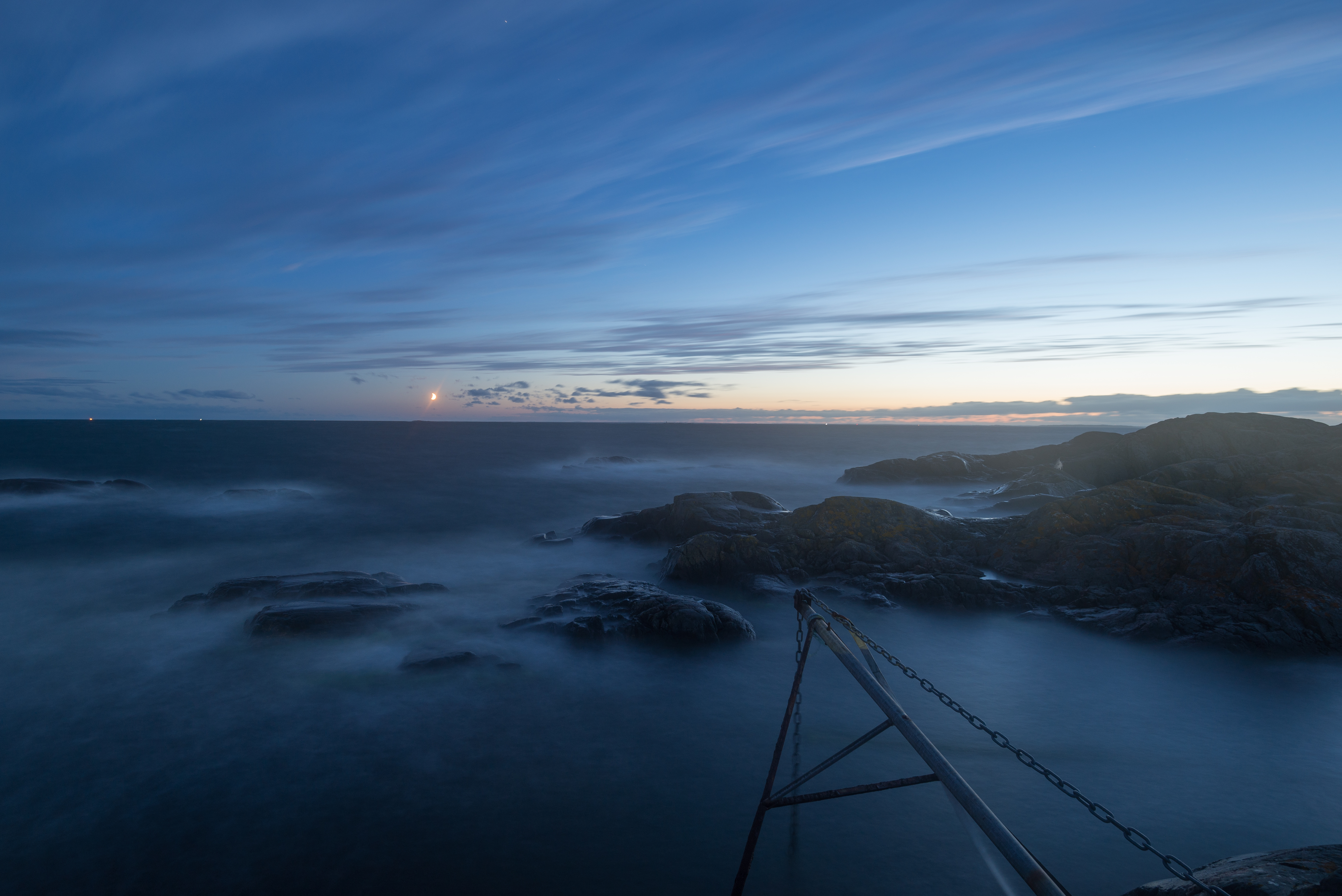 Night view of Landsort